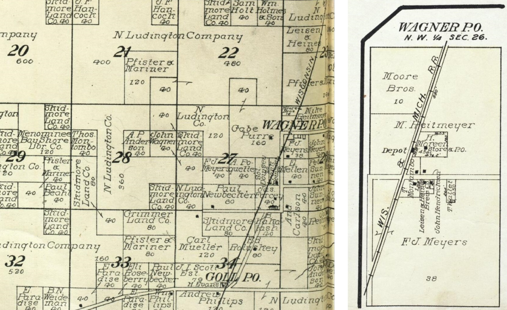 Map detail of Wagner, Wisconsin. From Standard Atlas of Marinette County Wisconsin Including a Plat Book of the Villages, Cities and Townships of the County. 1912. Chicago: Geo. A. Ogle & Co.